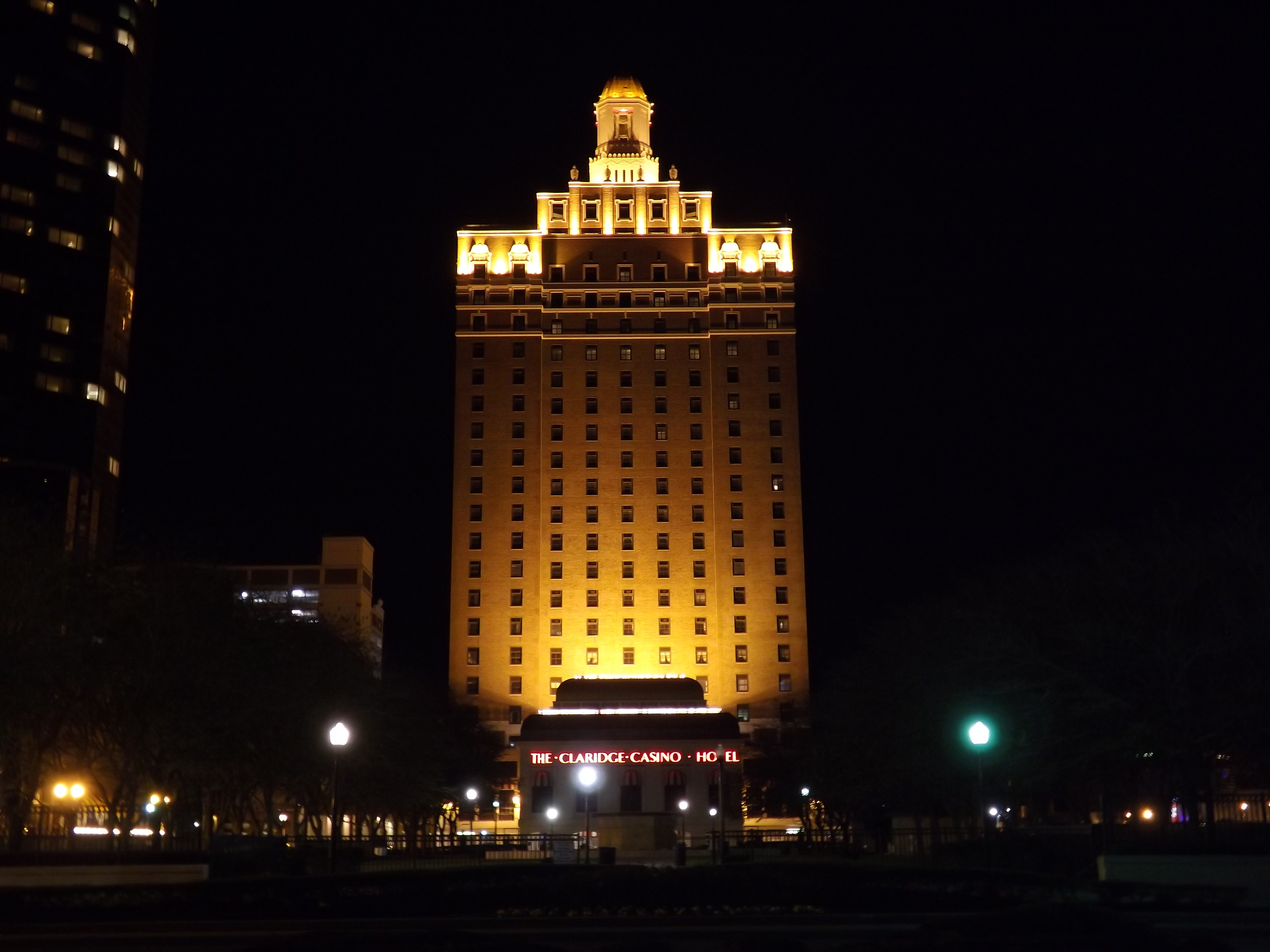 Claridge Hotel - Photographed at Night in October 2013